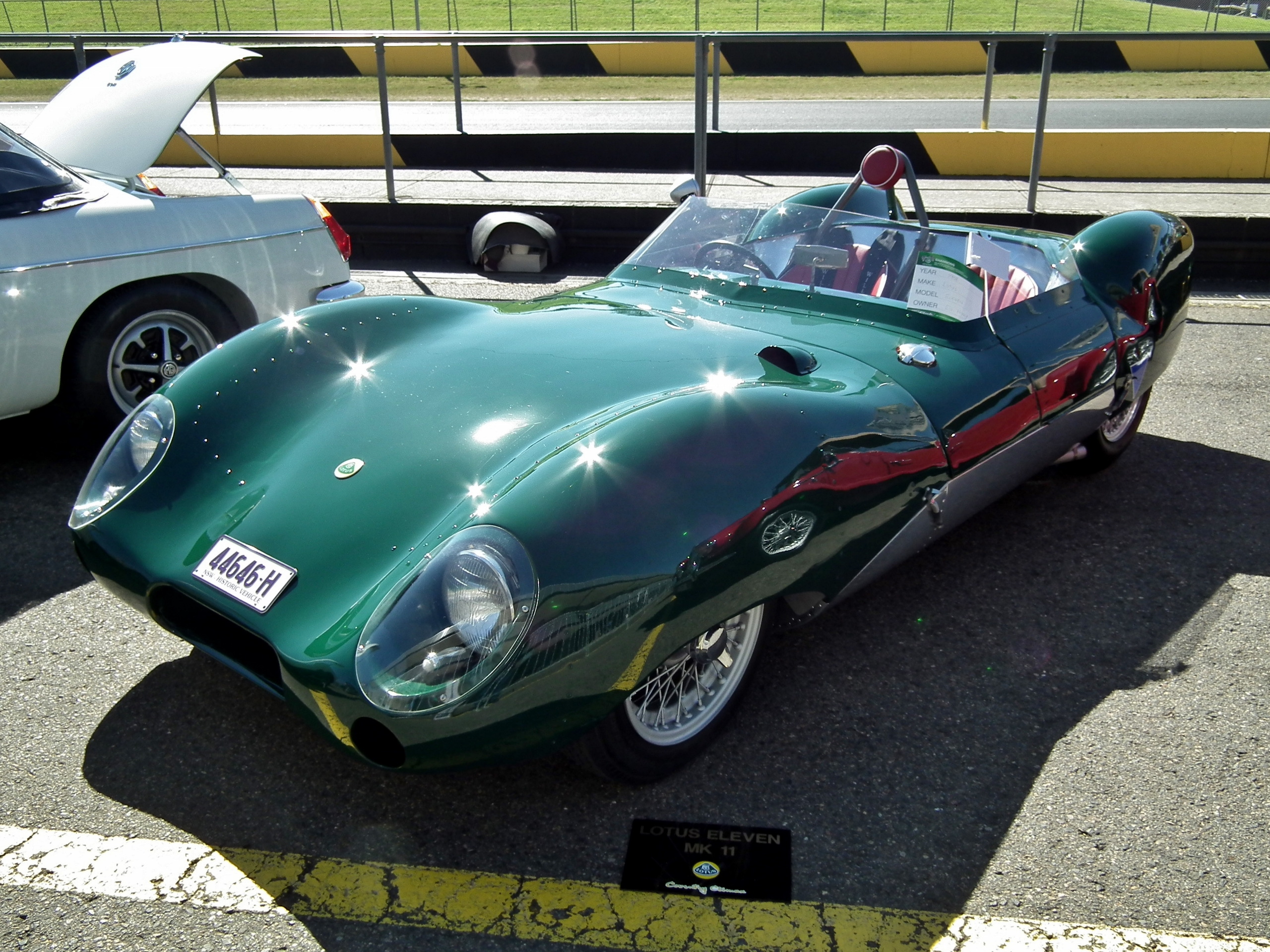 1958 Lotus Eleven Mk II roadster. Taken at the 2013 Shannon's Eastern Creek Classic display day, held at Sydney Motorsport Park.